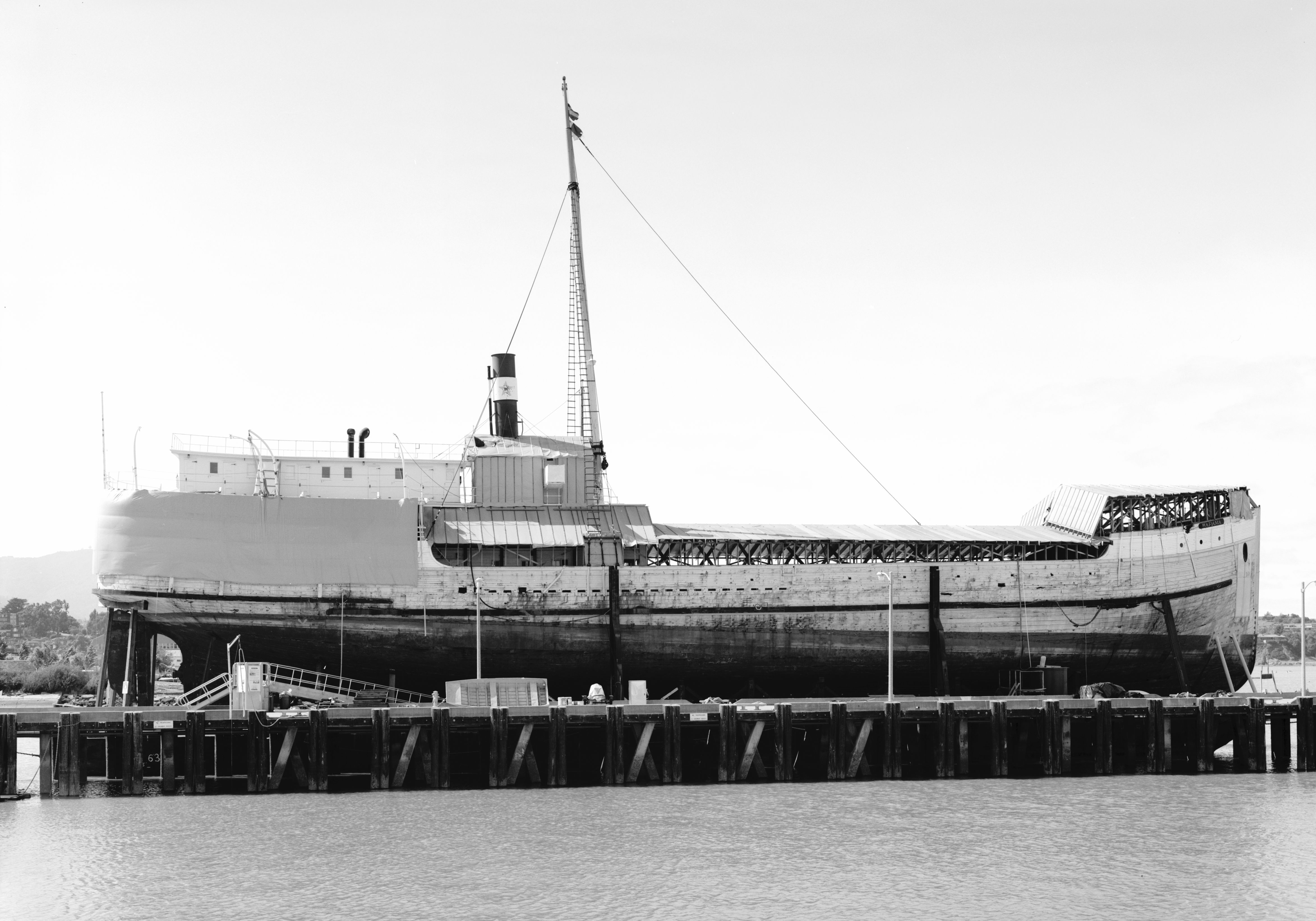 Steam Schooner WAPAMA, Sausalito (Marin County, California) (cropped)